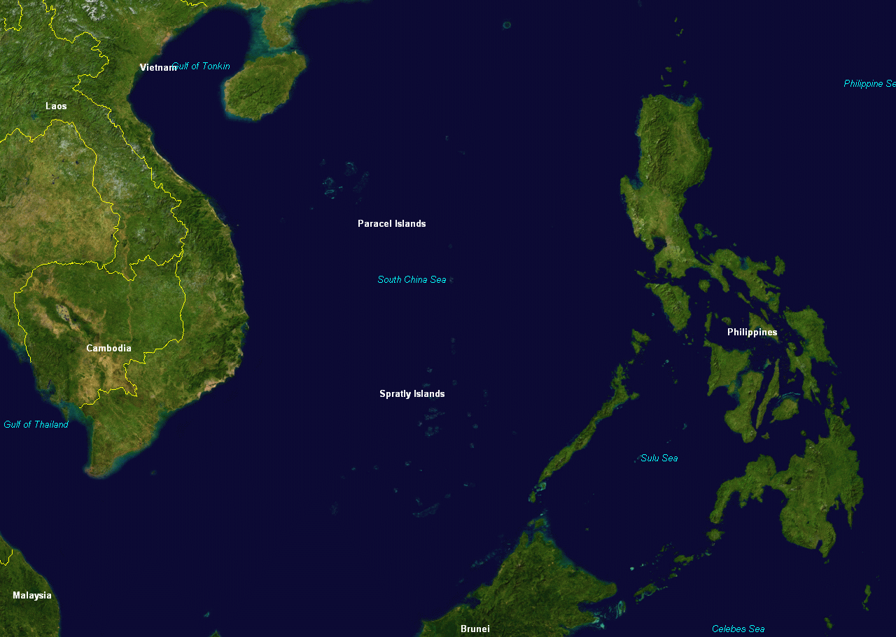 Spratly and Paracel Islands, from NASA World Wind